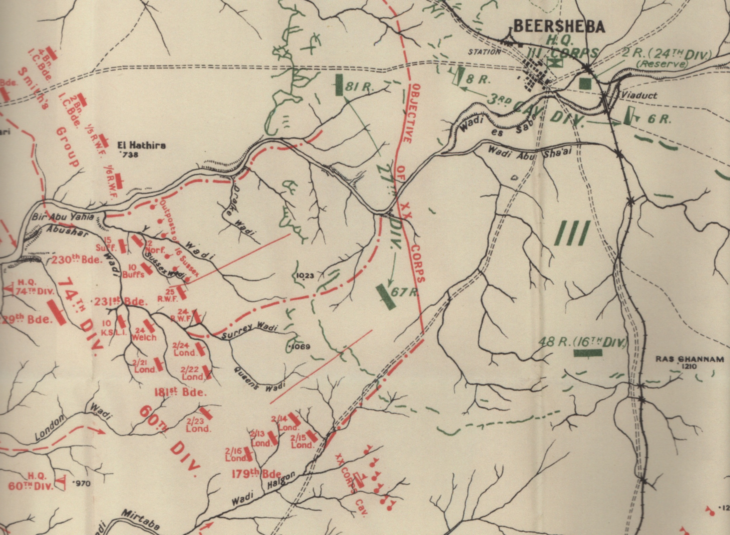 Detail of Falls map 5 Battle of Beersheba